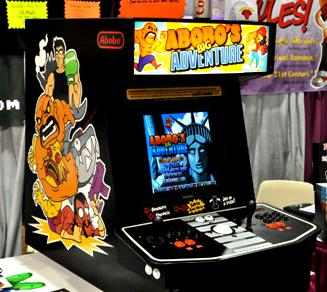 Image of the custom arcade cabinet, shown at the San Diego Comic-Con